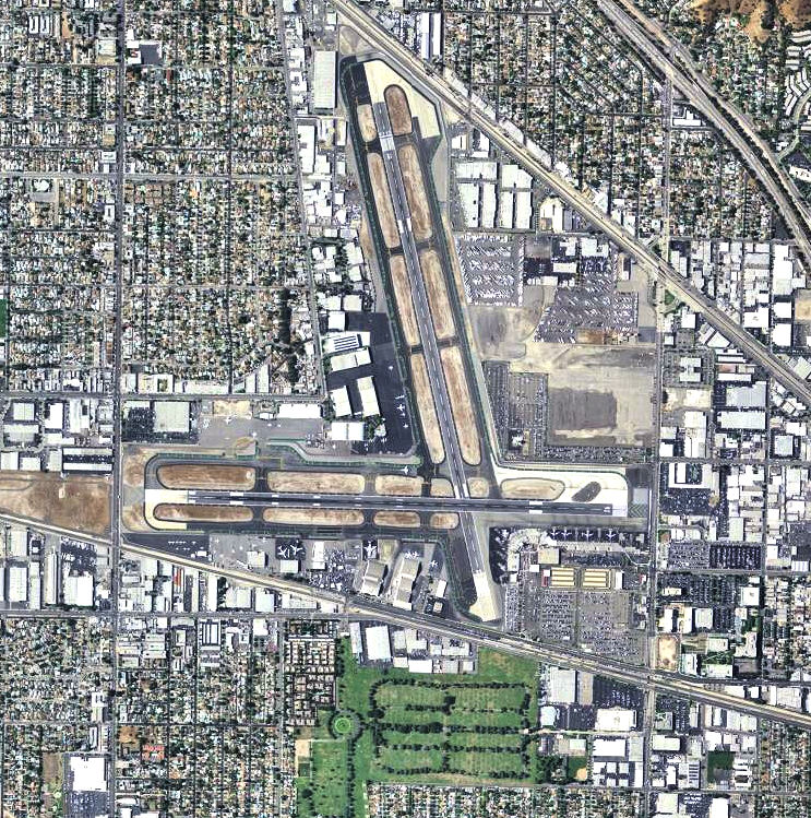 USGS digital orthophoto of Bob Hope Airport in California